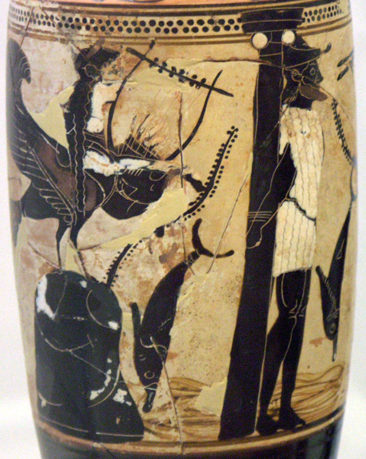 White-ground lekythos by the Endinburgh Painter, late 6th century BC. Odysseus and the sirens. Athens, 1130. From Eretria.